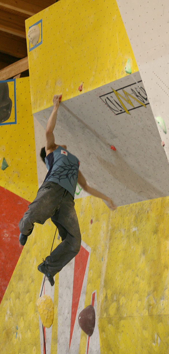 Tsukuru Hori during the finals at the IFSC Boulder Worldcup Vienna 2010.